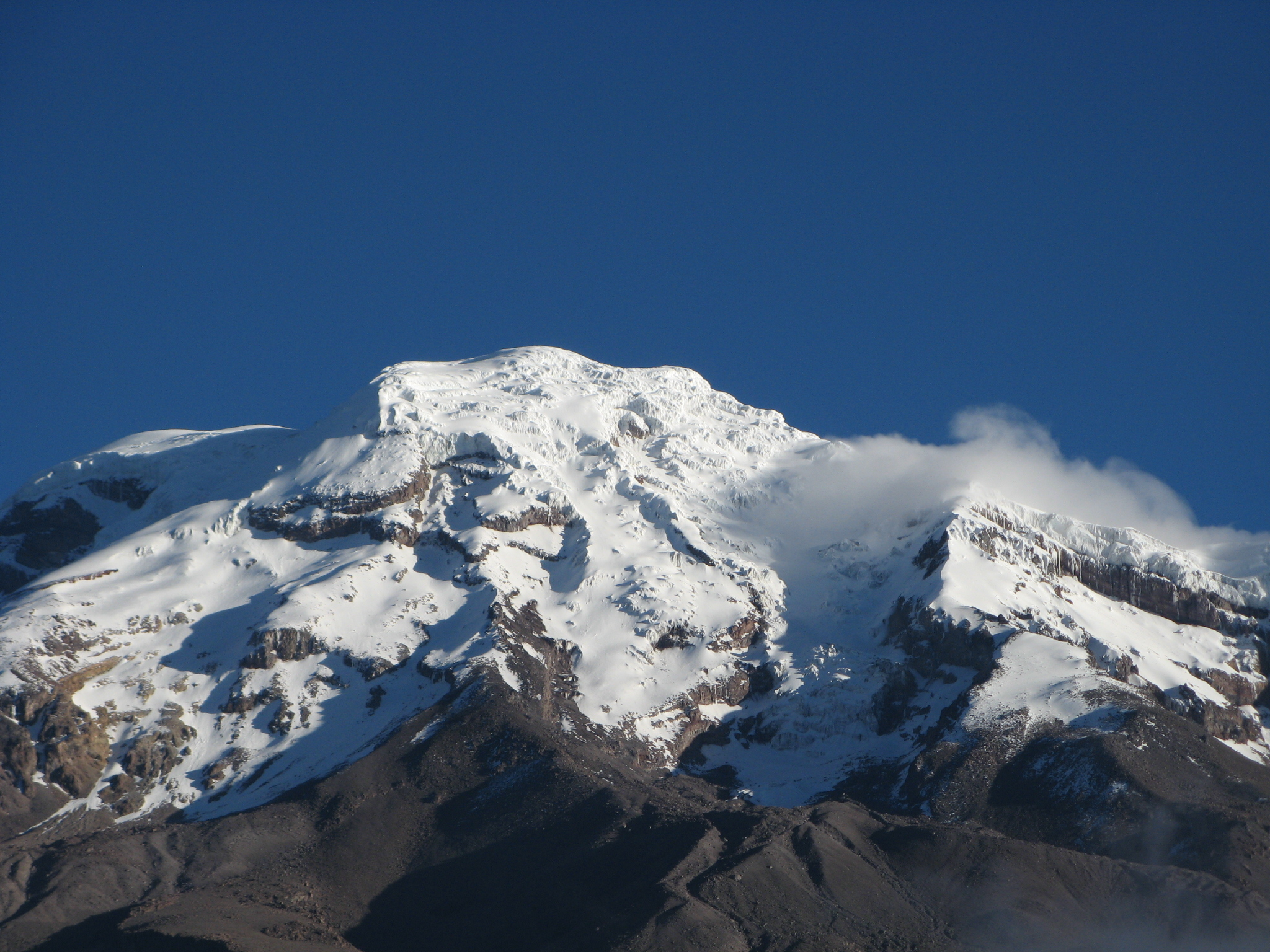 Ecuador's Chimborazo, close-up of the summit